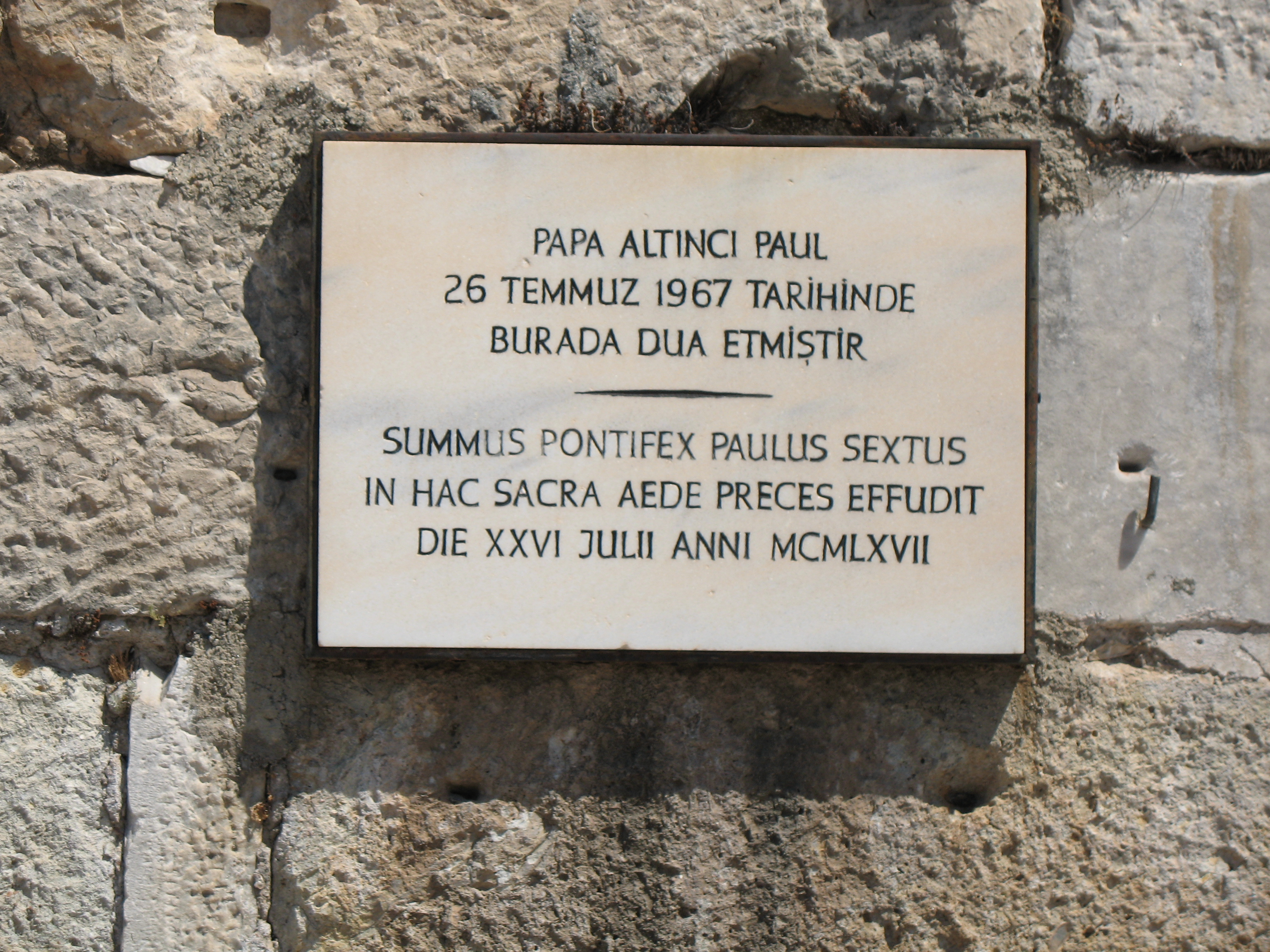 Marker nearby the St. Jean'ın mezarı, the Tomb of St. John the Apostle, in St. John's Basilica, Ephesus, near modern day Selçuk, Turkey.